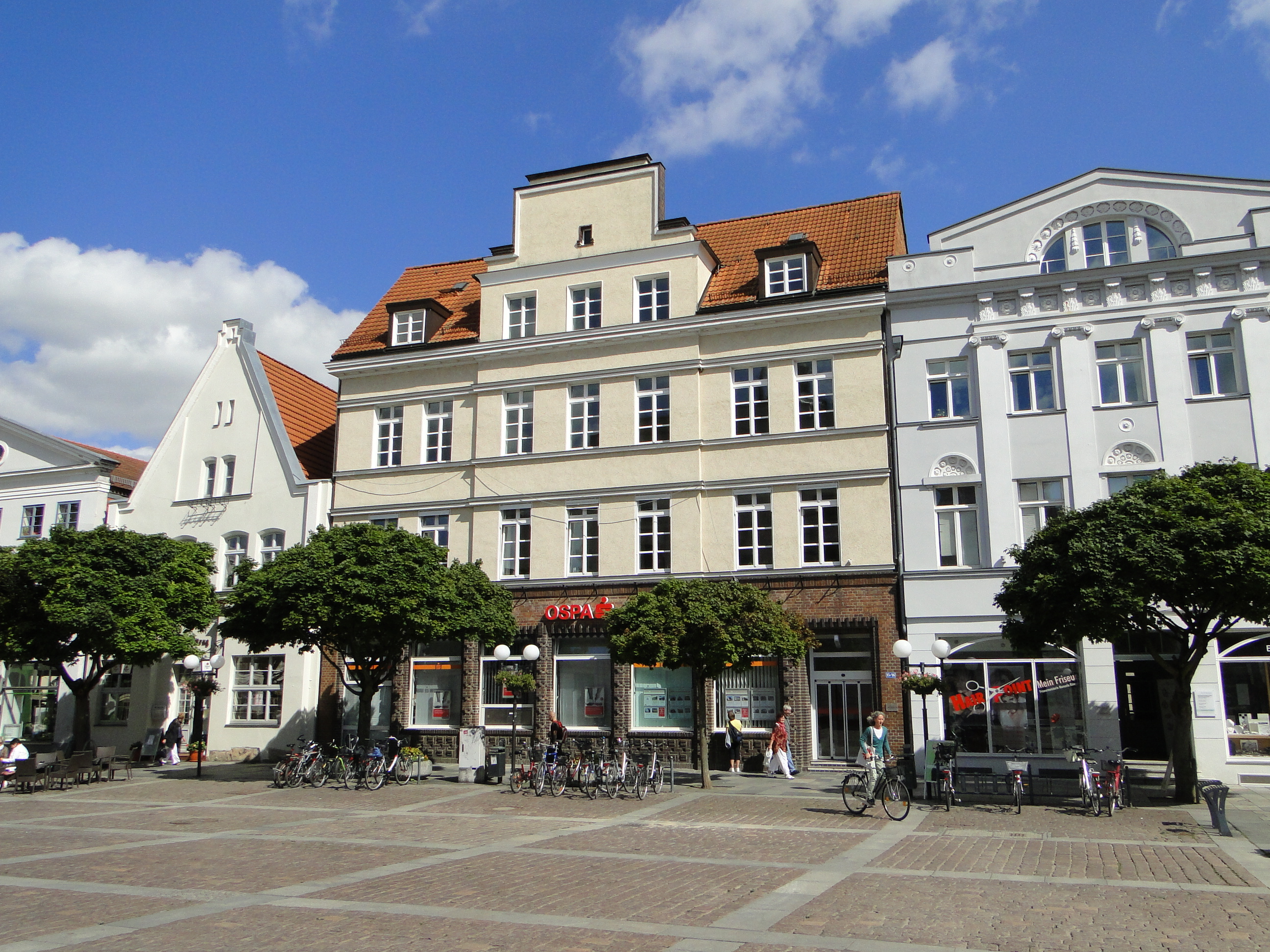 Bank building at marketplace in Güstrow, district Rostock, Mecklenburg-Vorpommern, Germany